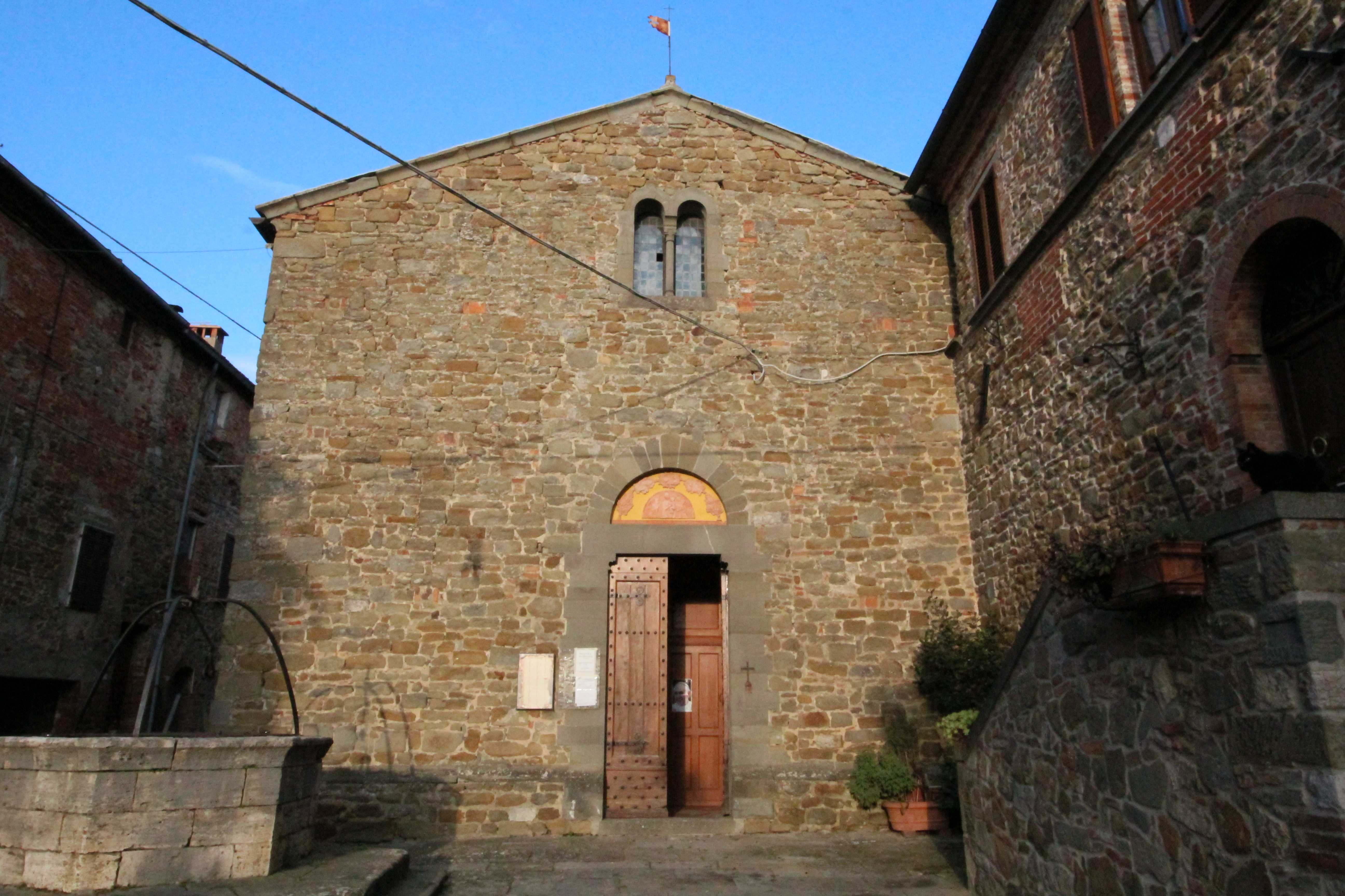 Church San Marcellino, Rigomagno, hamlet of Sinalunga, Valdichiana, Province of Siena, Tuscany, Italy